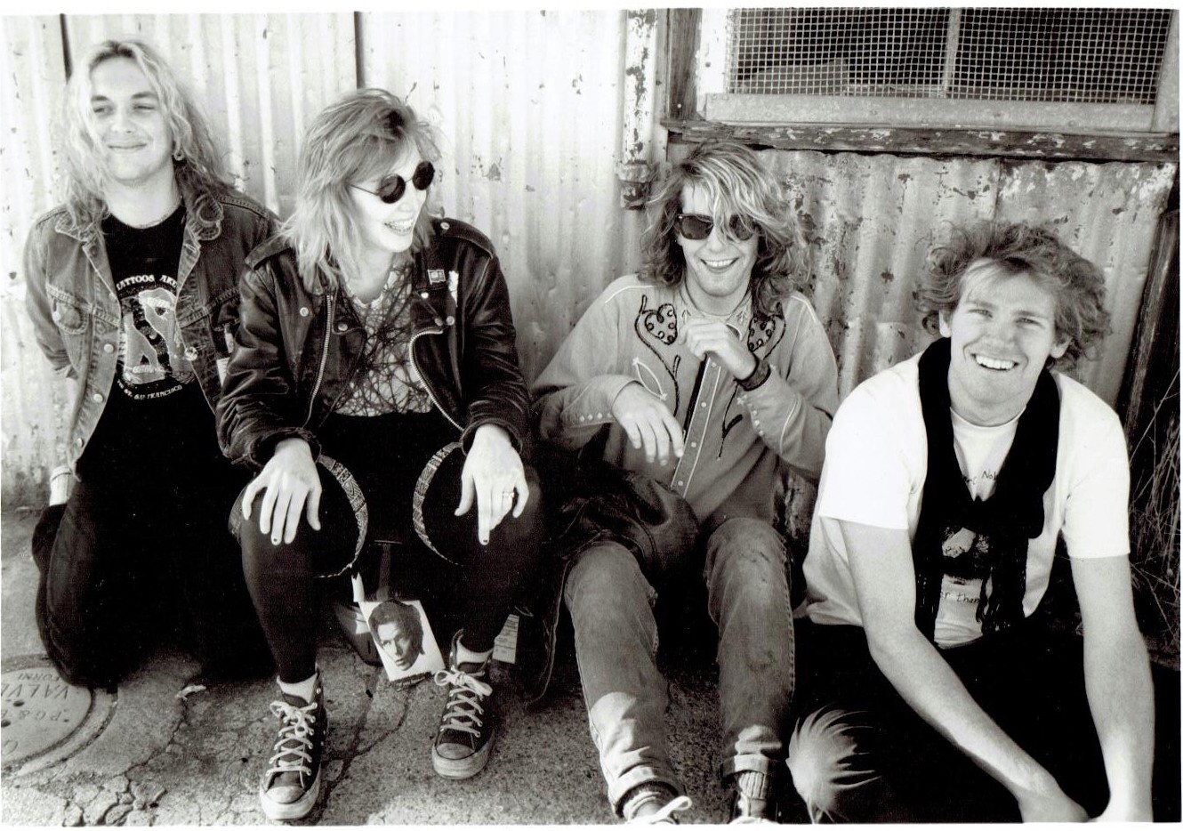 Cropped version of Short Dogs Grow publicity photo.